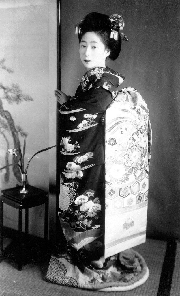 A maiko: her obi worn in the "darari" style is prominent